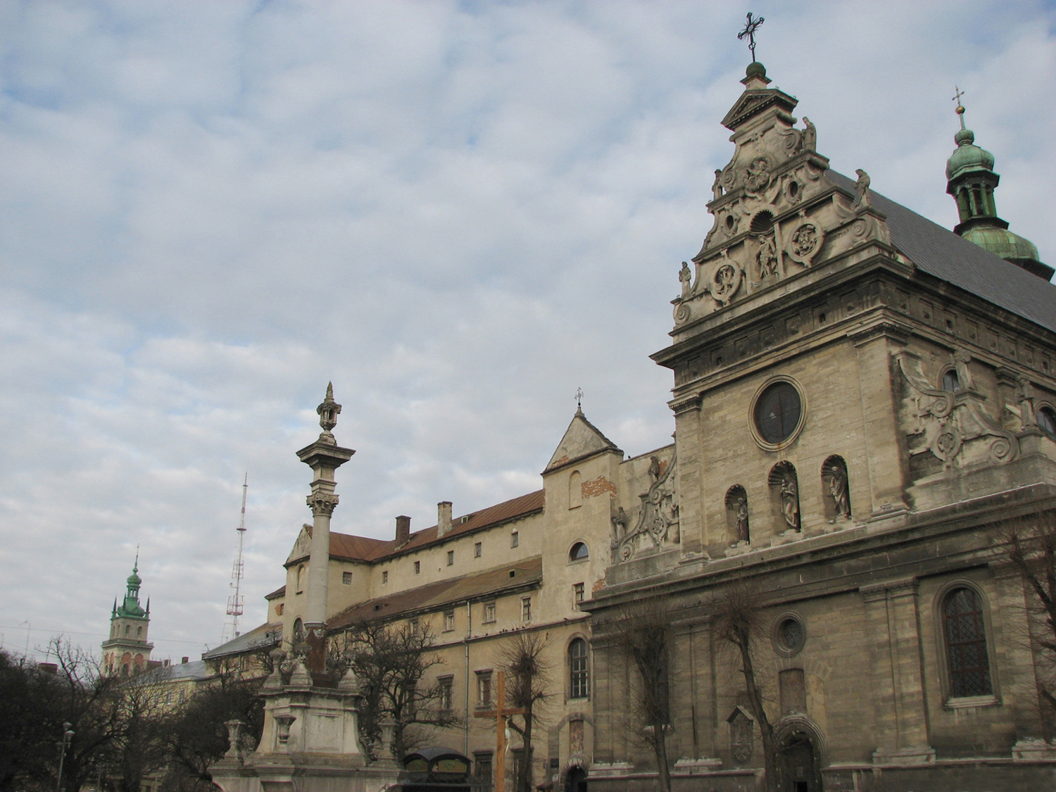 Bernardine church and monastery in Lviv